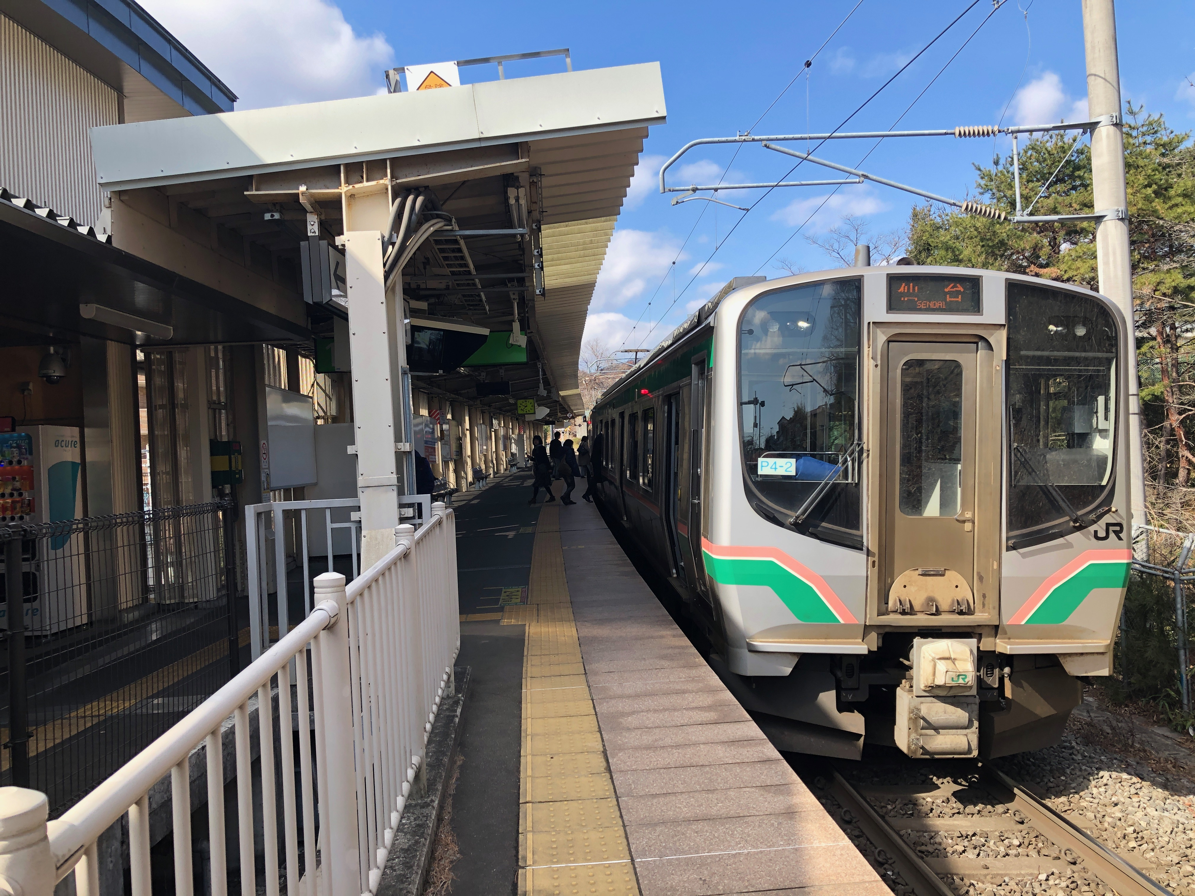 An E129 series EMU at the platform of Tohoku Fukushi University Station on 14 March 2019